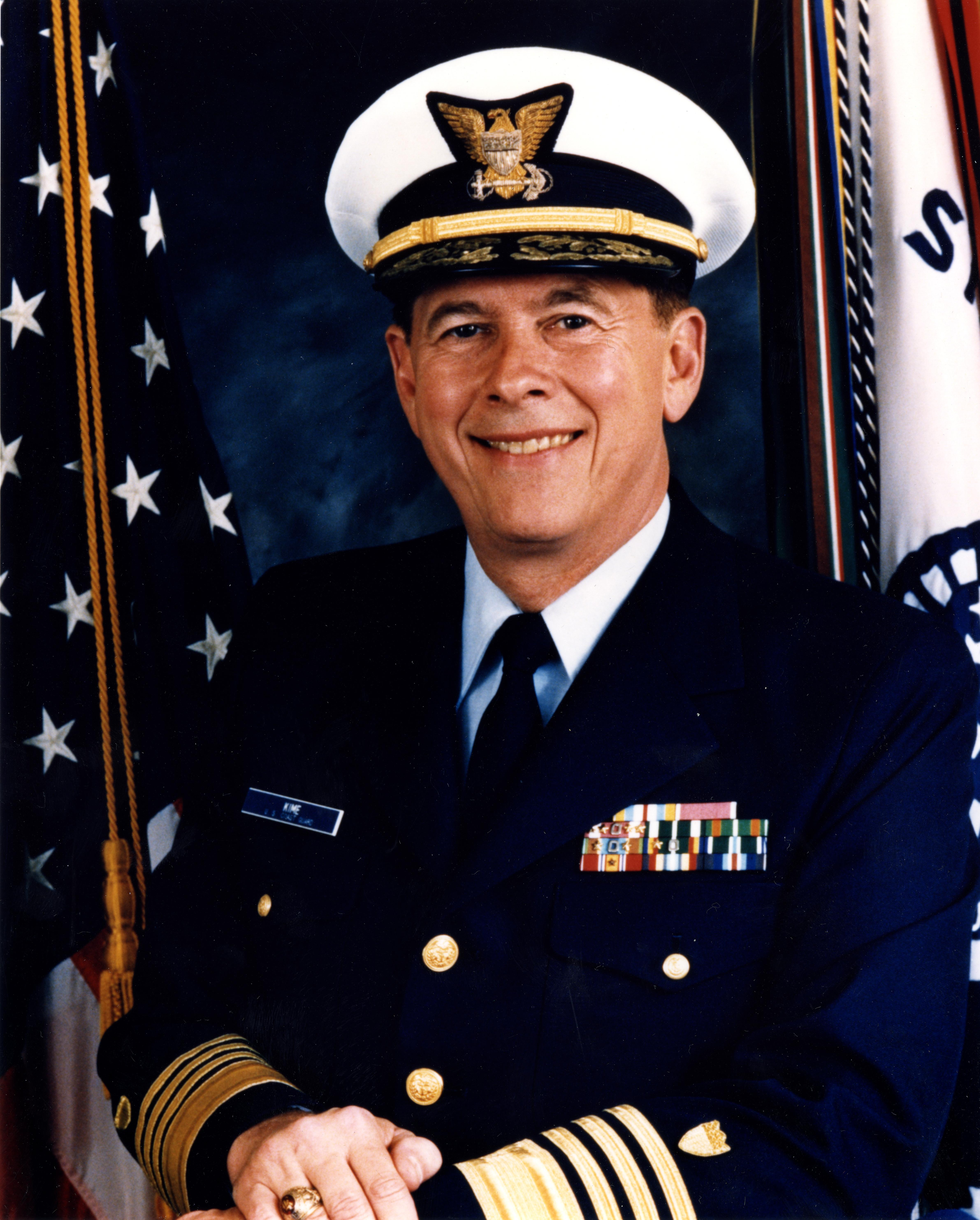 Admiral John William Kime, USCG